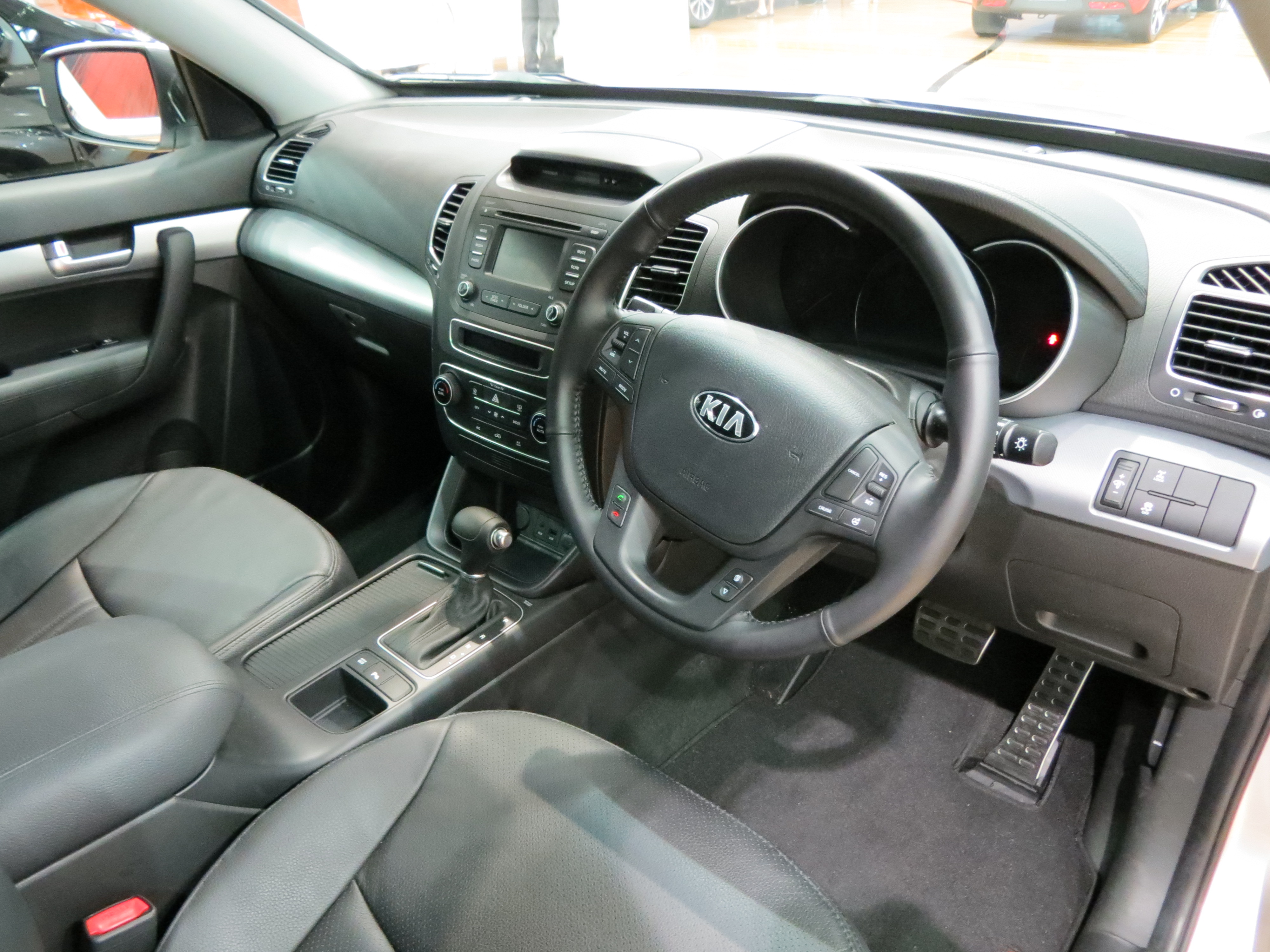 2012 Kia Sorento (XM MY13) SLi wagon. Photographed at the 2012 Australian International Motor Show, Sydney, New South Wales, Australia.